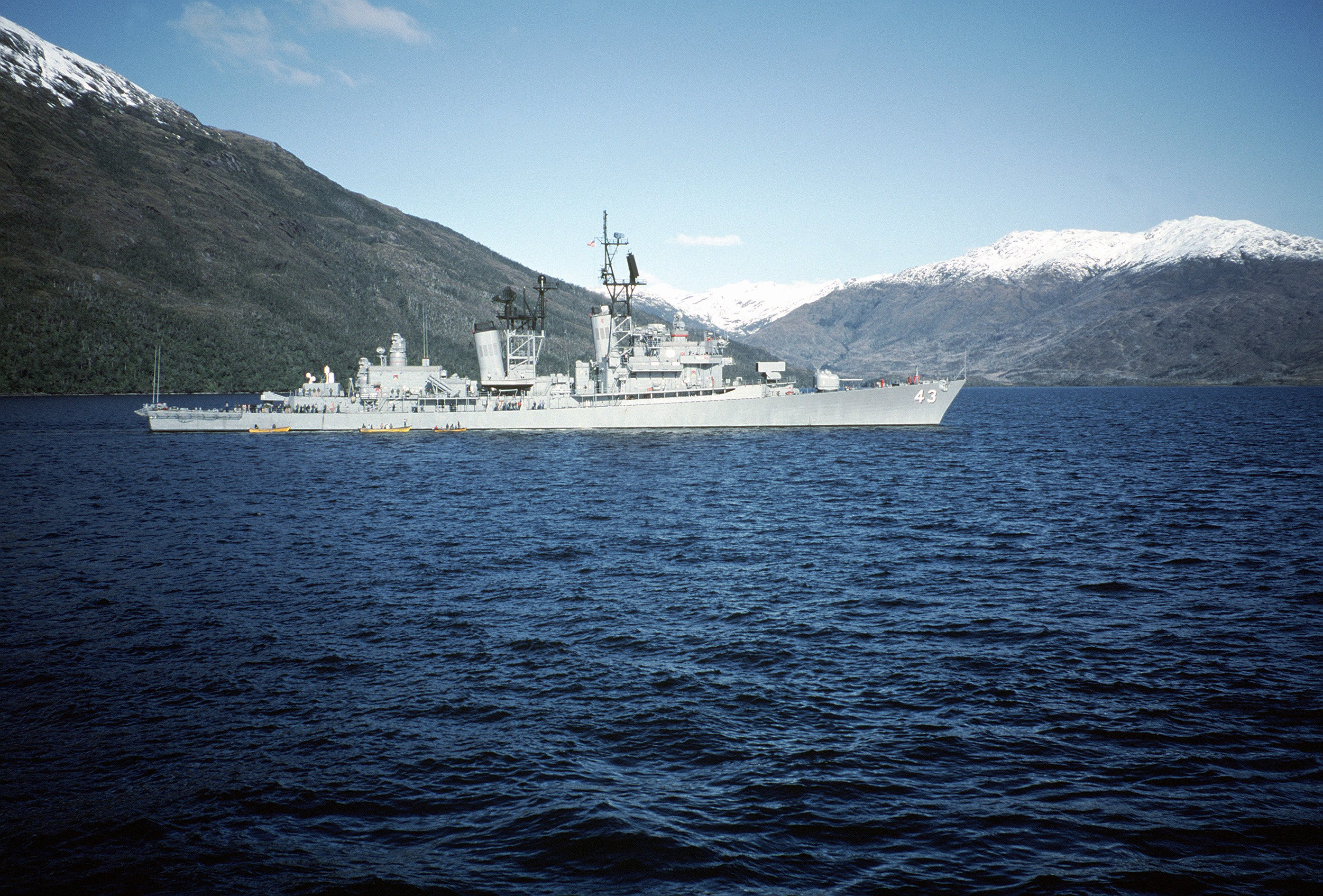 Small boats come alongside the U.S. Navy guided missile destroyer USS Dahlgren (DDG-43) as the ship pauses in the Strait of Magellan while en route to Punte Arenas, Chile, during the multinational naval exercise "Unitas XXXII", 20 October 1991.